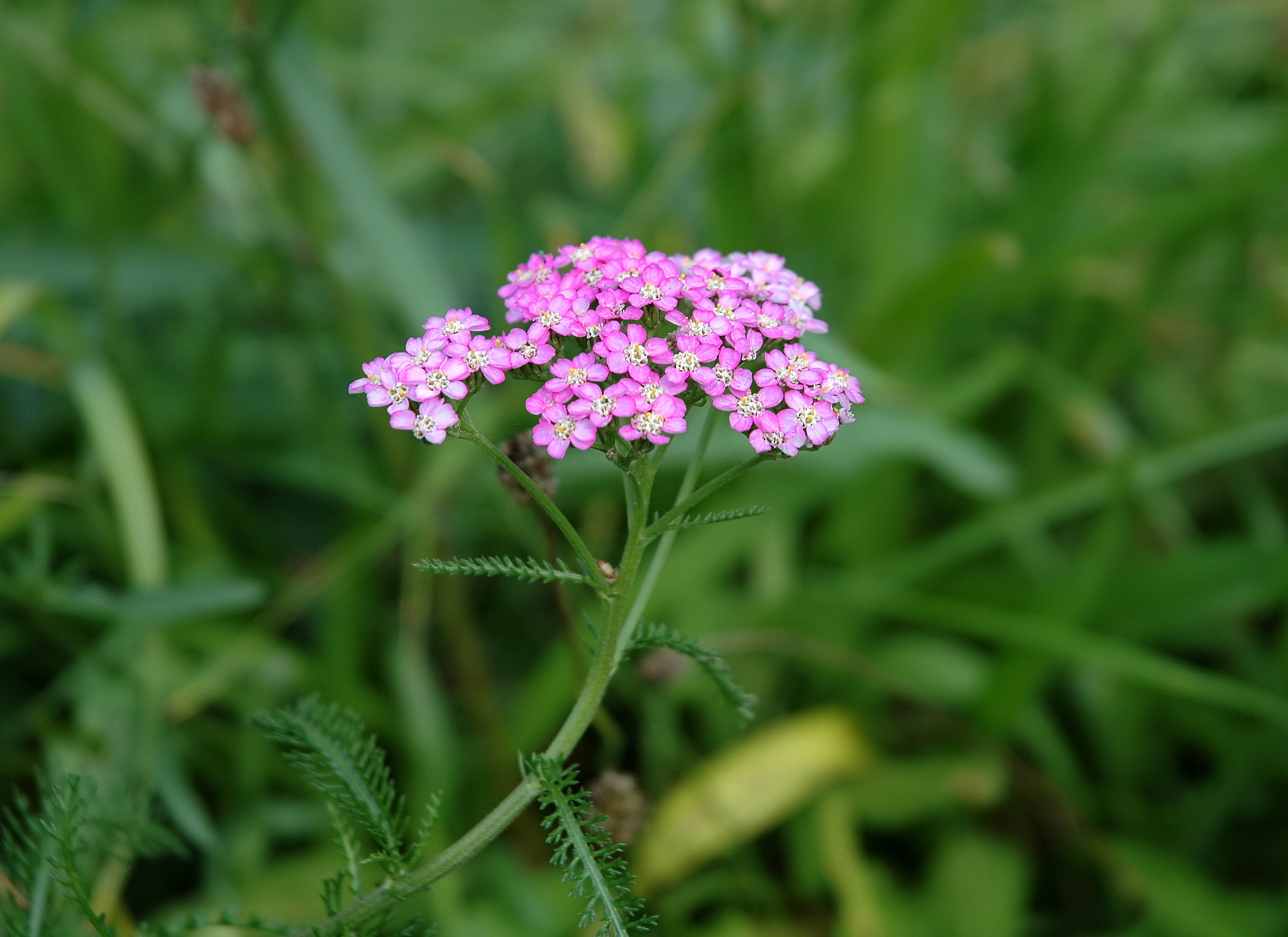 This image shows a purple Yarrow and has been fotographed in Zwickau, Germany.